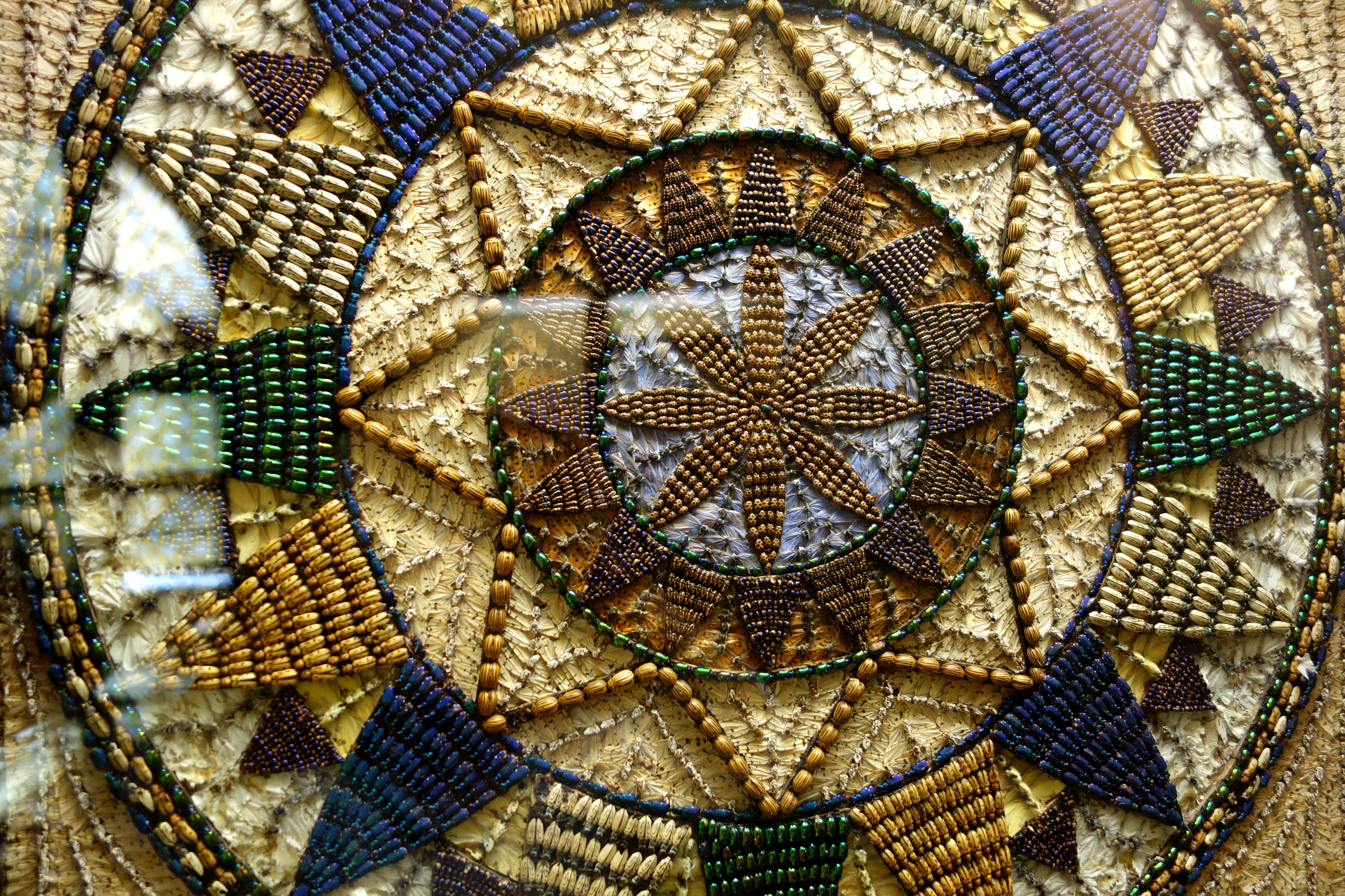 Artwork created by John Hampson from thousands of insects (butterfly wings, beetles, etc.). Exhibited in the Fairbanks Museum and Planetarium, St. Johnsbury, Vermont, USA. This artwork is in the public domain because the artist died more than 70 years ago.